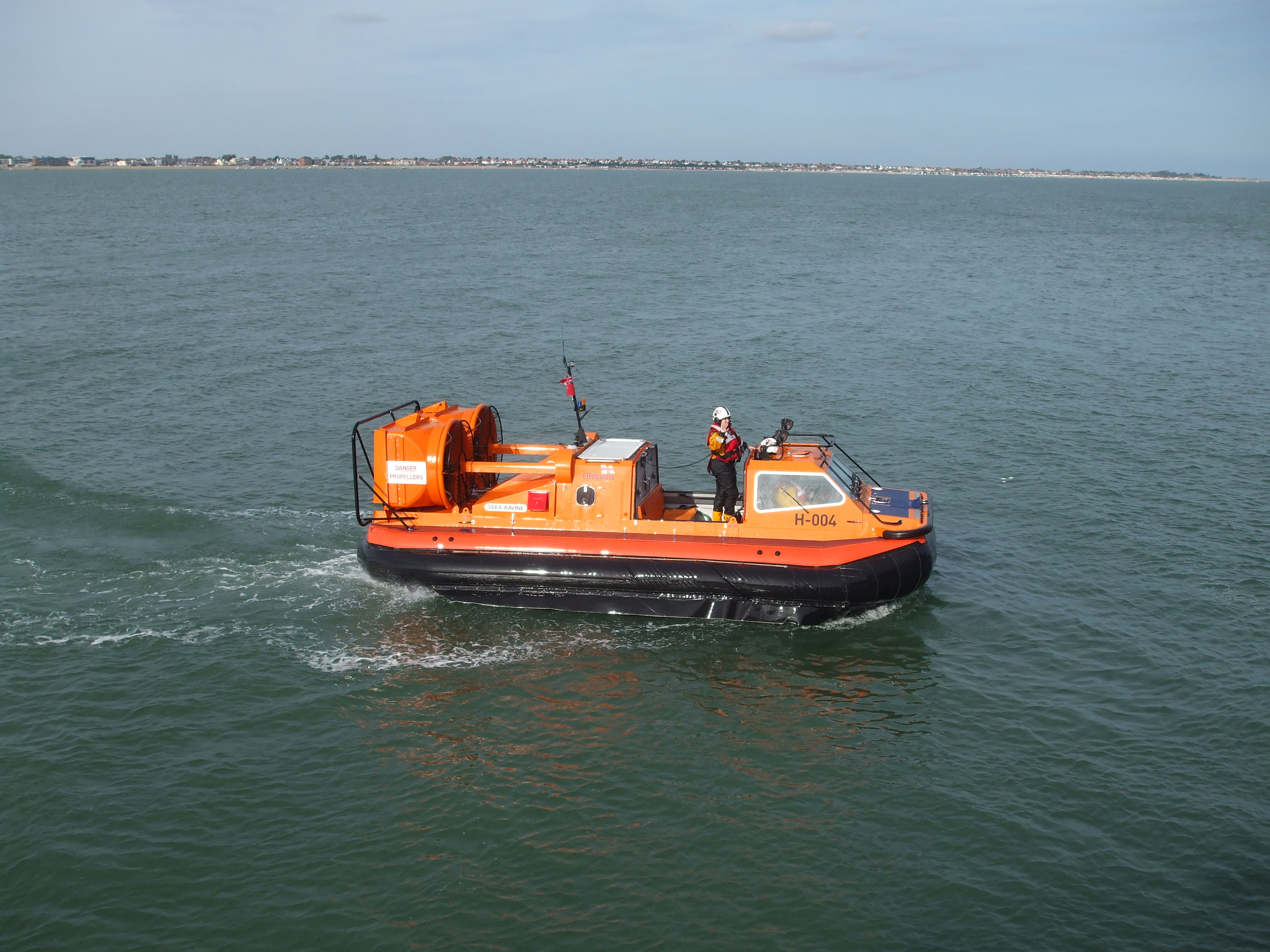 RNLI hovercraft H-004 Vera Ravine on manoeuvres off Southend-on-Sea RNLI station, at the head of the pier.